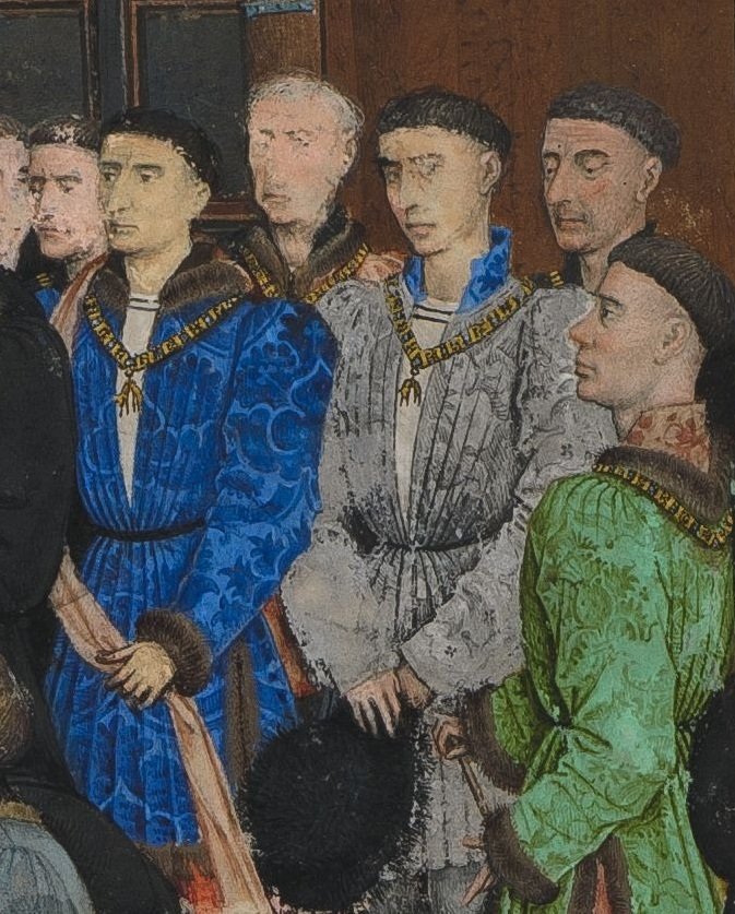 Jean Wauquelin presenting his 'Chroniques de Hainaut' to Philip the Good